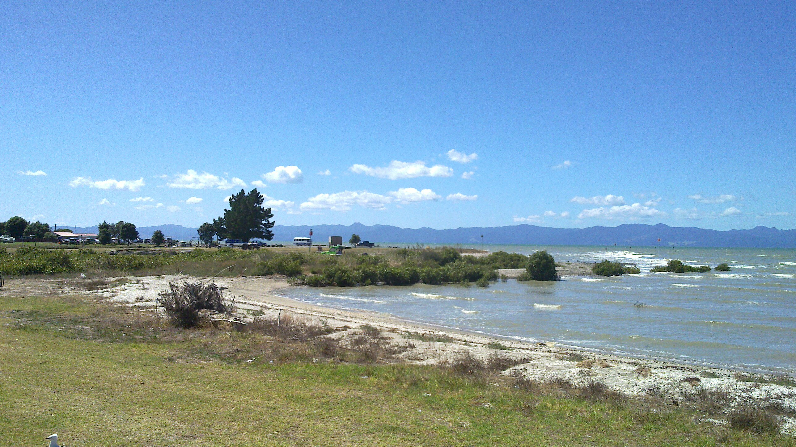 Coastline at Kaiaua in Hauraki District, New Zealand